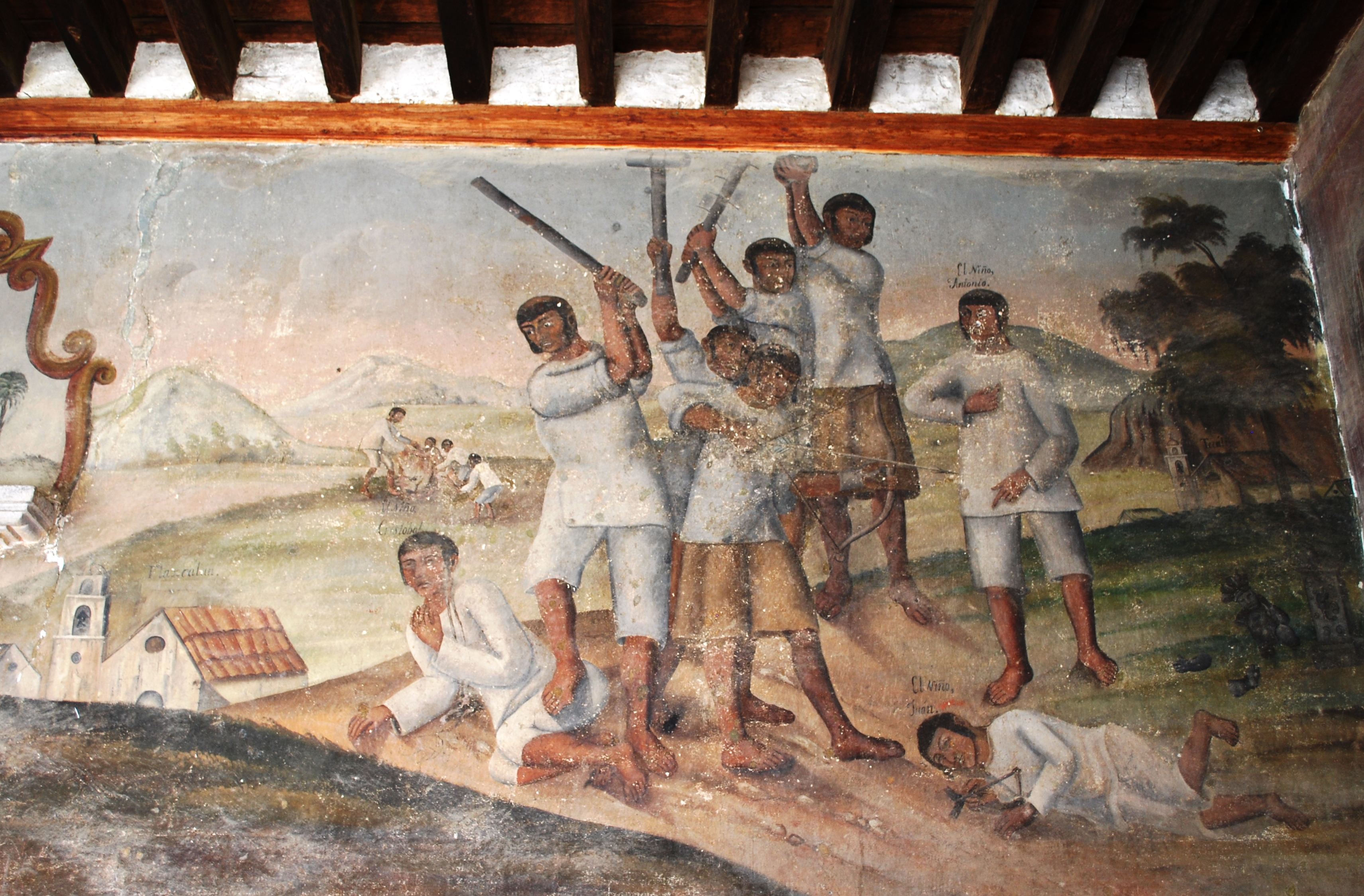 Depiction of the "Child Martyrs" of Tlaxcala on a mural painted in the 16th century by unknown author at the Immaculate Conception Church in Ozumba, Mexico State